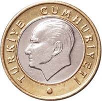 1 Lira coin reverse